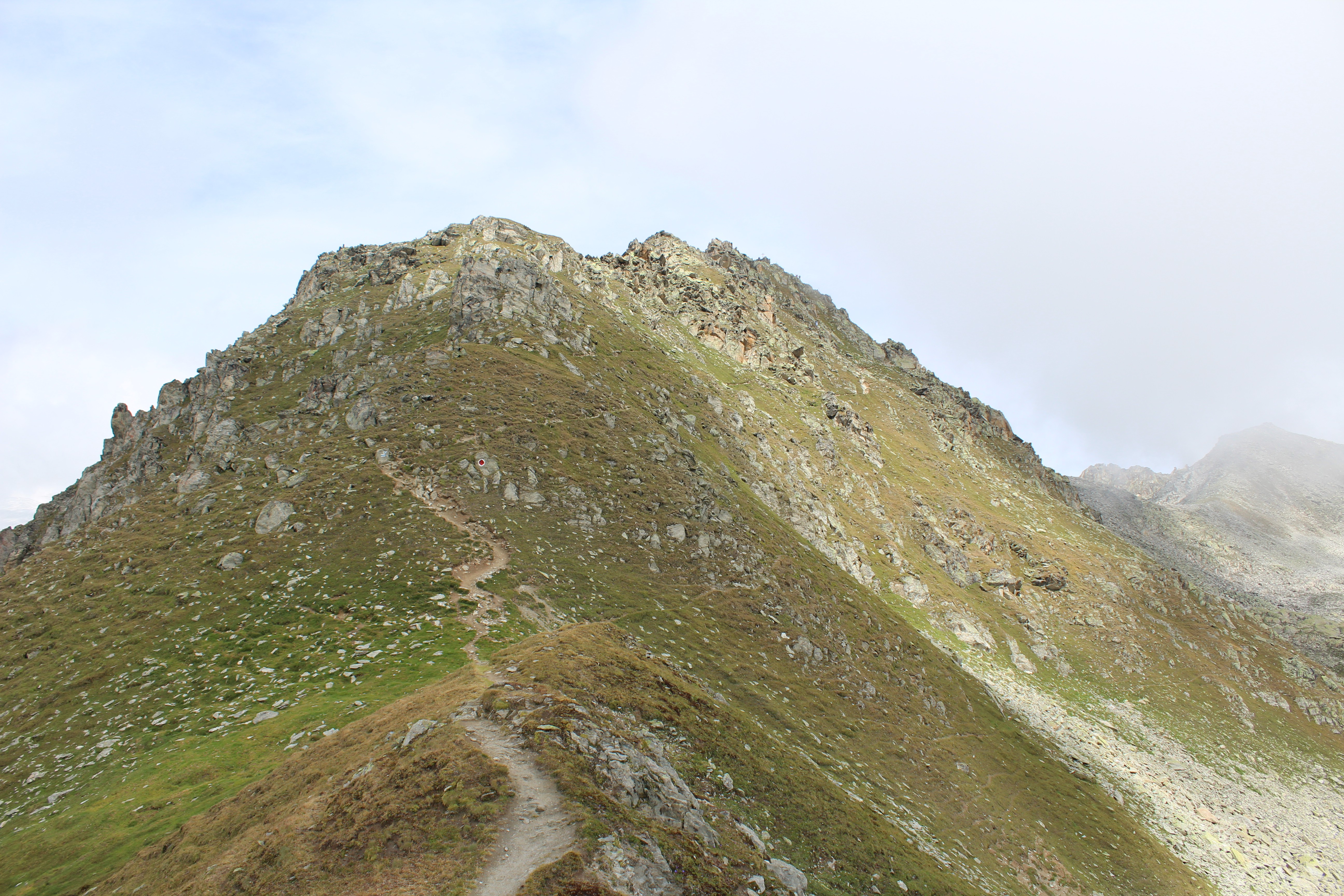 On the way to the peak of the Risihorn 2876m